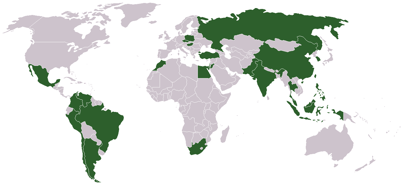 World map with countries classified as Emerging Markets highlighted in green. Based on [1] which is released as PD.